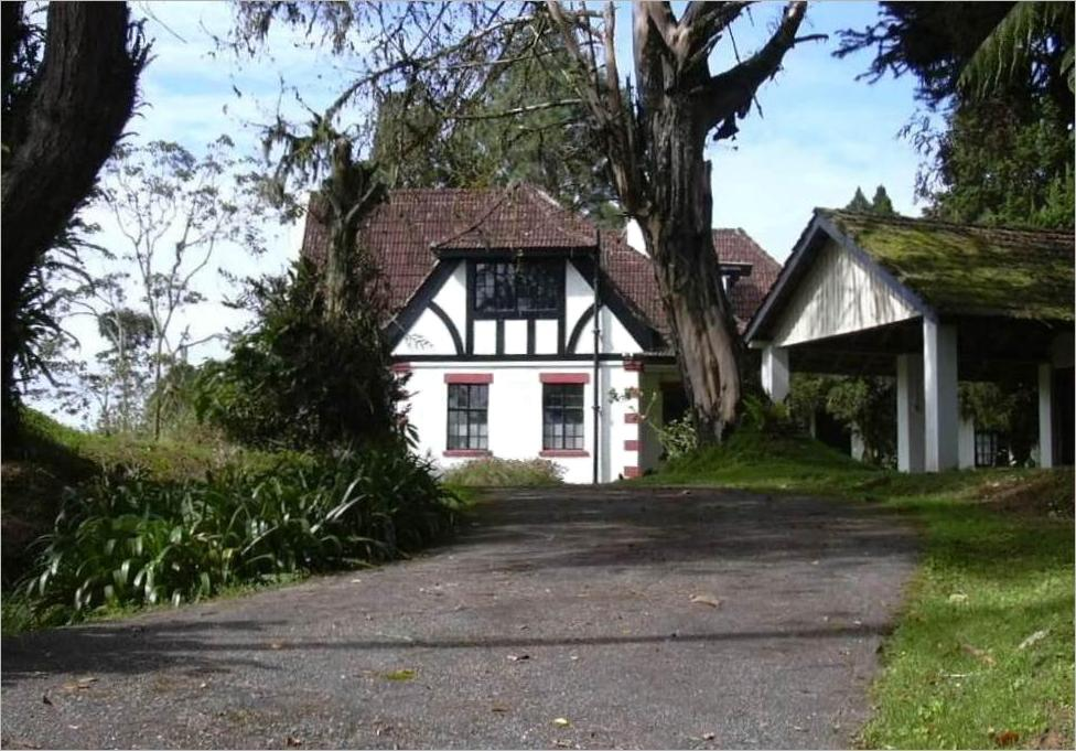 Moonlight bungalow is located at No. A47, Jalan Kamunting, 39000, Tanah Rata, Cameron Highlands, Pahang, West Malaysia. Photo taken by User:Roysouza.